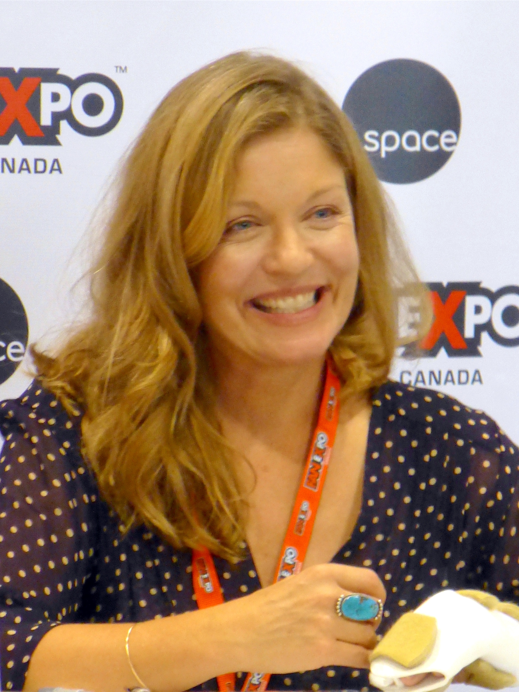 Sheryl Lee 01 at 2014 Fan Expo Canada